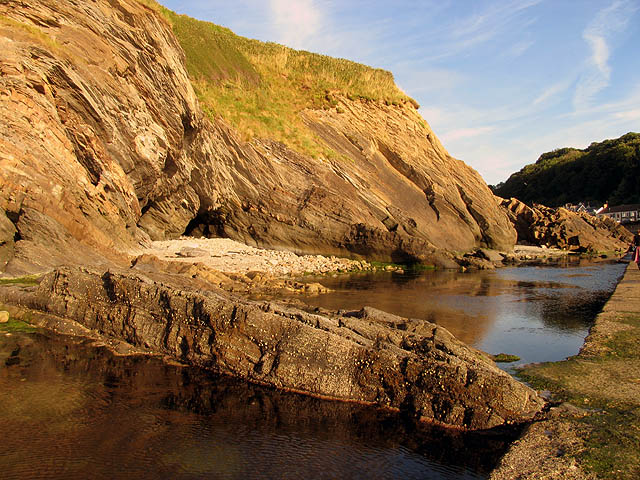 Base of Lester Cliff: Combe Martin. One of the many rockpools along the base of the cliff. This is the one nearest the land/beach area.